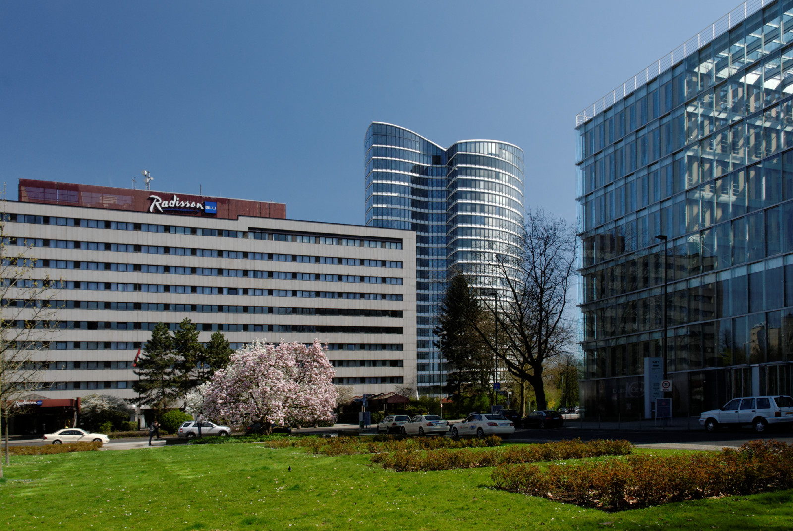 Karl-Arnold-Platz in Düsseldorf-Golzheim, Germany This is a photograph of an architectural monument.